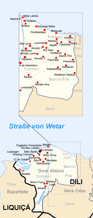 Administrative map of the Dom Aleixo administrative post/Dili municipality of East Timor